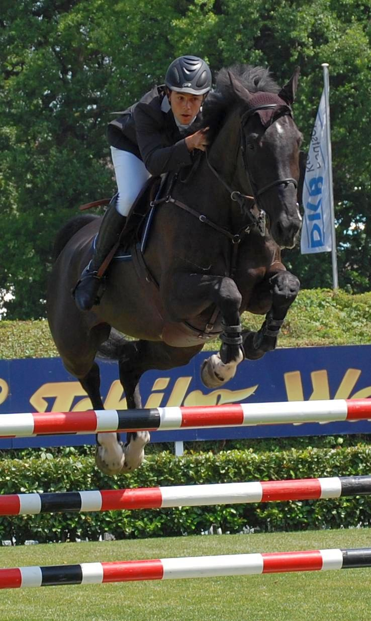 Spanish rider Sergio Álvarez Moya with Wisconsin, "Championat von Hamburg", CSI 5* Hamburg 2011